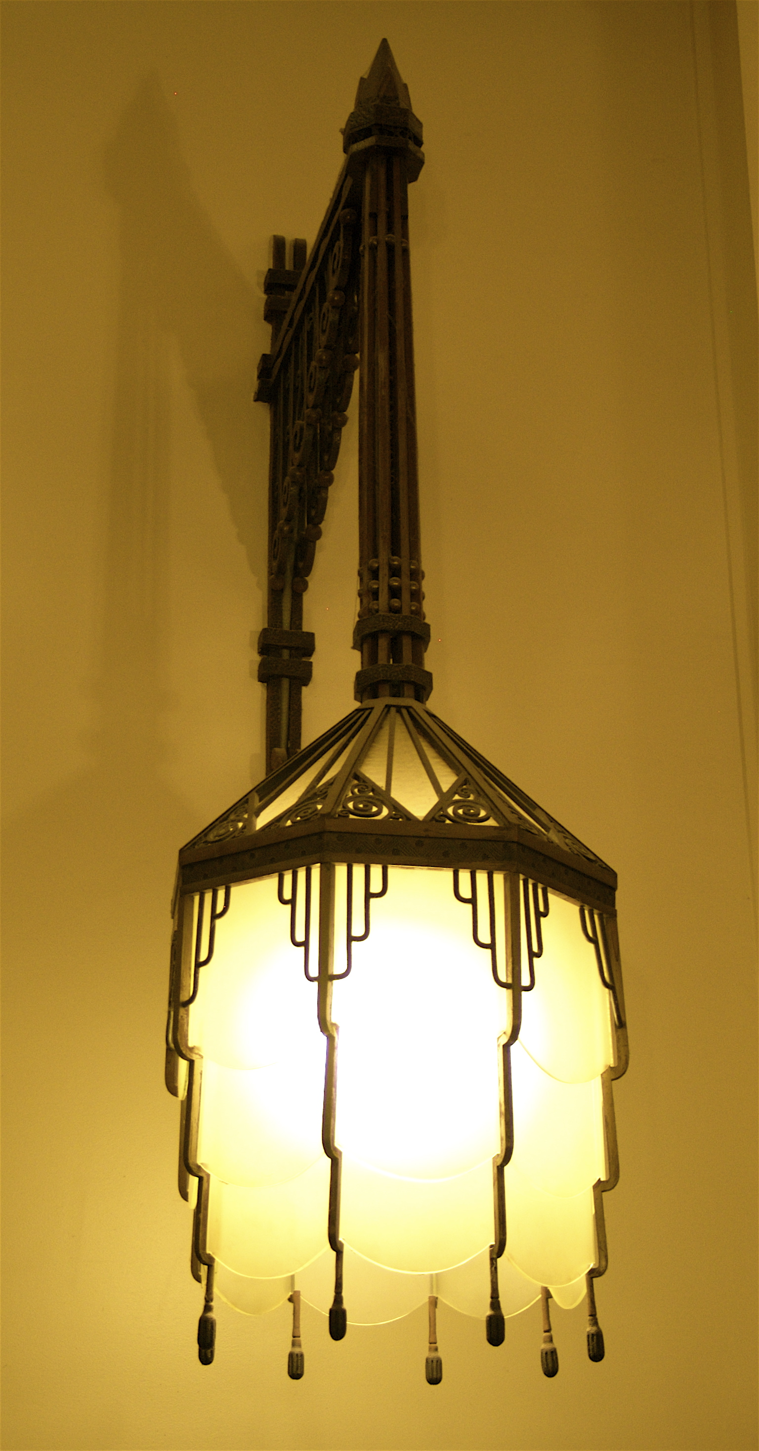 Art Deco in Saint-Quentin, France